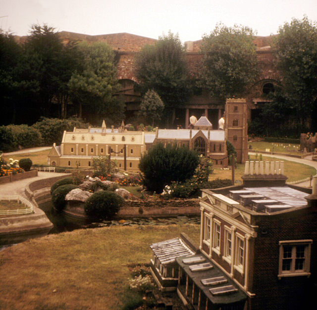 The model village, Eastbourne Redoubt The model village which occupied the parade ground area of the redoubt for a period between the end of WW2 and the 1970s. Part of the redoubt's circular perimeter can be seen beyond the trees. By 1977 the redoubt was home to a military museum, a use more relevant to its military origins. The redoubt was constructed as part of the defensive strategy during the period of the Napoleonic wars in the early years of the 19th century and was a barracks and supply depot for the nearby Martello towers. It is a scheduled ancient monument. Best estimate for the date of photograph is between 1966 and 1969. Another view of the model village: A 2009 view of the inner area of the redoubt